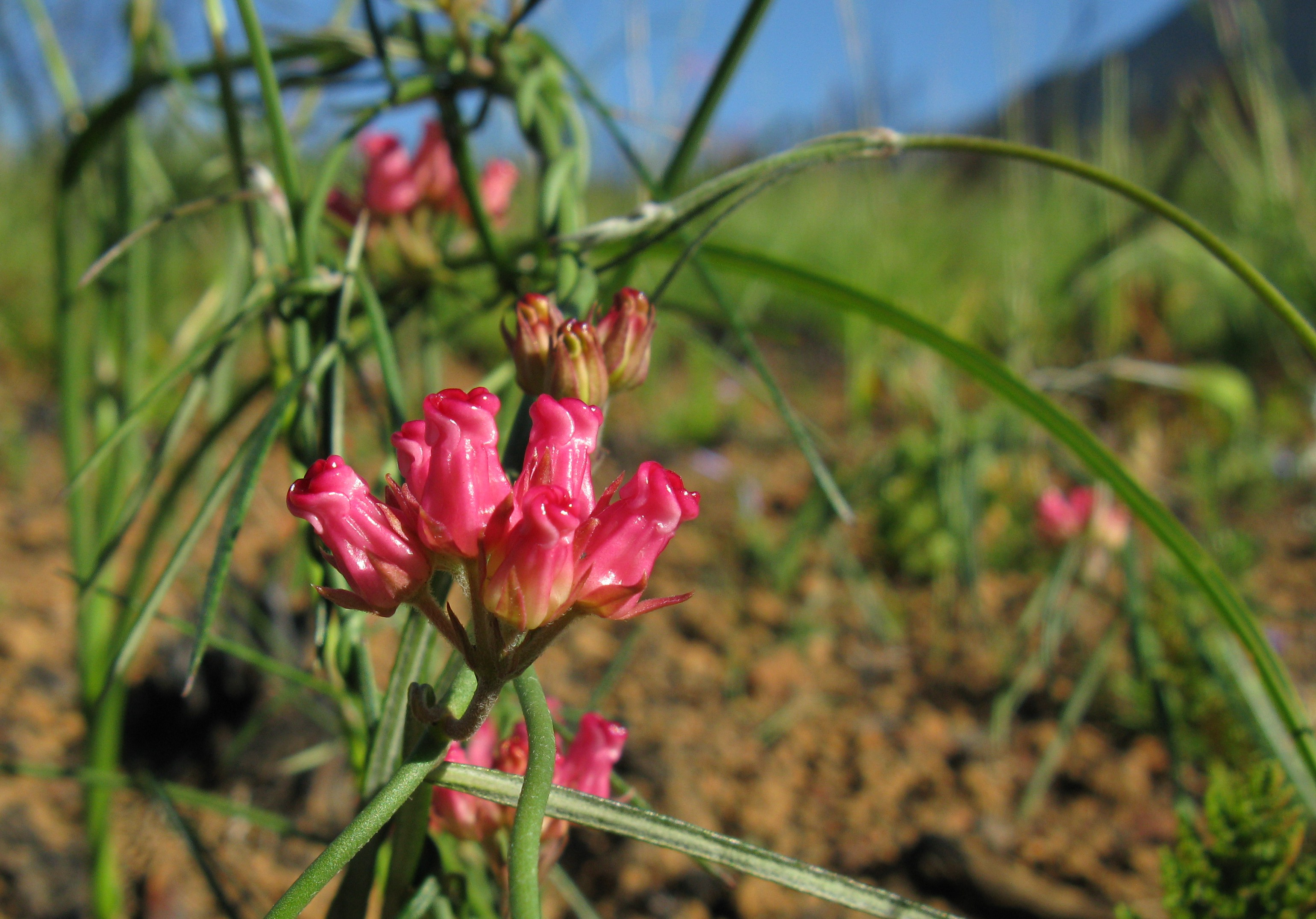 Microloma tenuifolium, Asclepiadoideae, Apocynaceae, A small, very decorative twiner endemic to fynbos